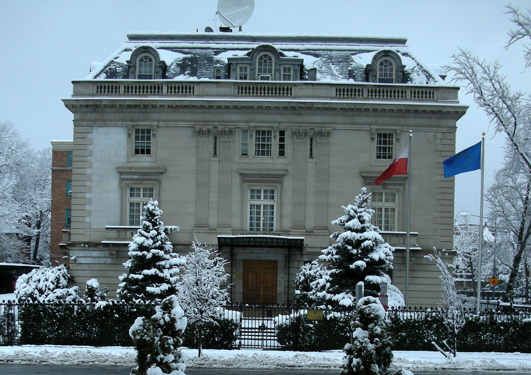 Embassy of Poland in Washington.Embajada polaca